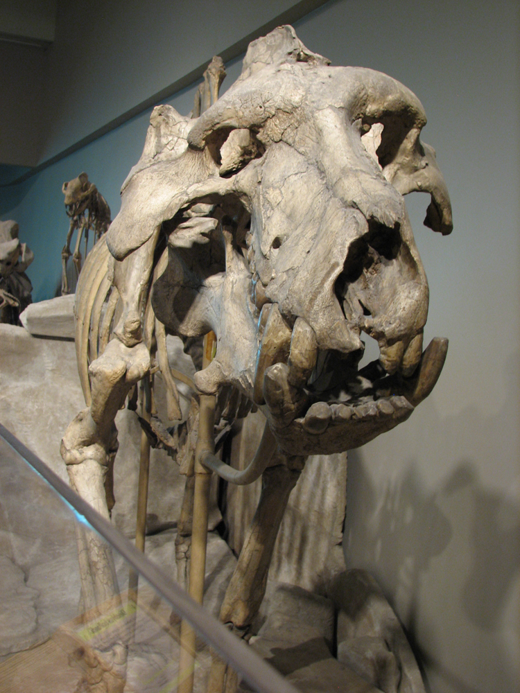 Daeodon skeleton at the Carnegie Museum of Natural History